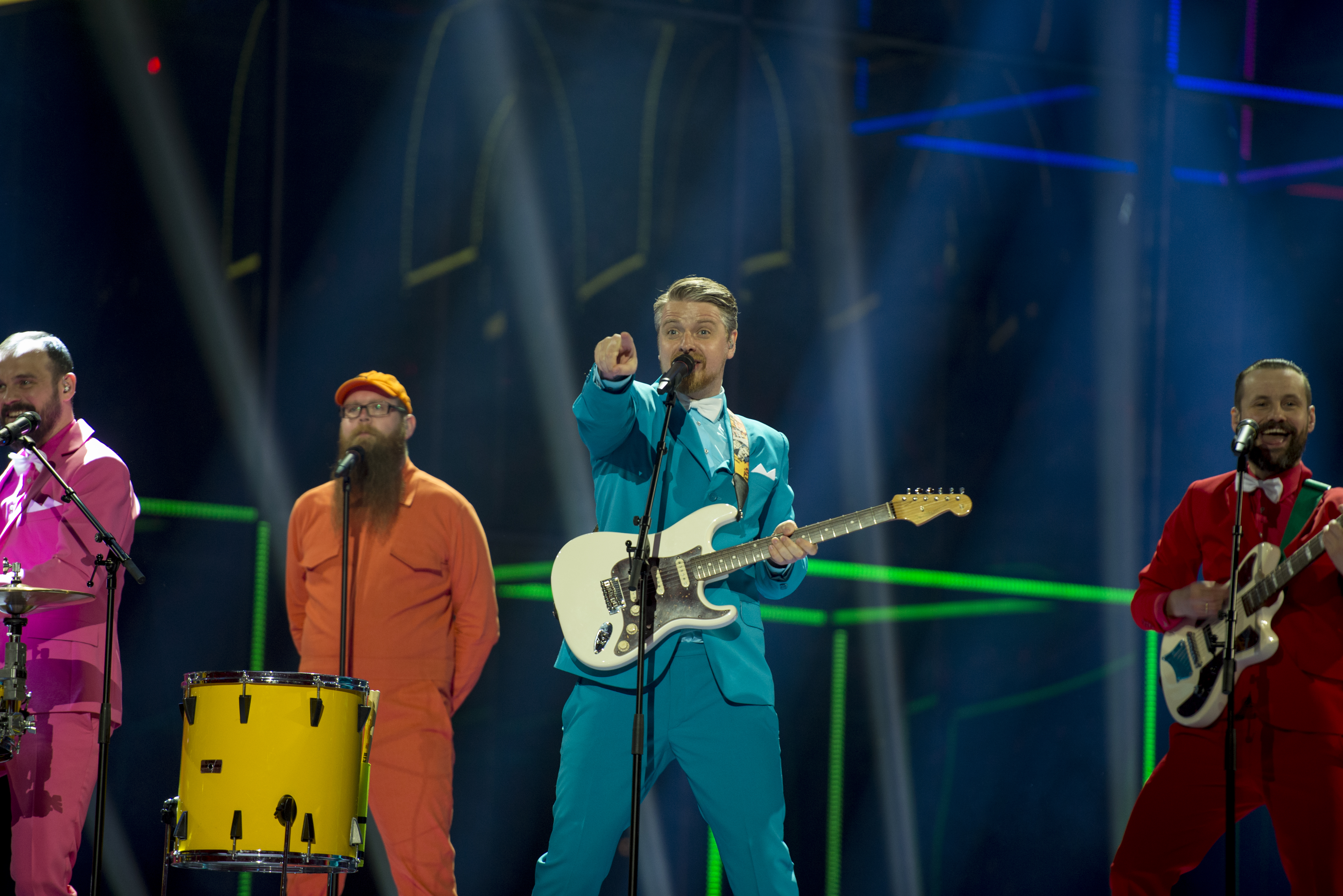 Pollapönk representing Iceland with the song "Enga fordóma" during the first dress rehearsal of the first semi final of the Eurovision Song Contest 2014 Copenhagen. (Help translate this text)